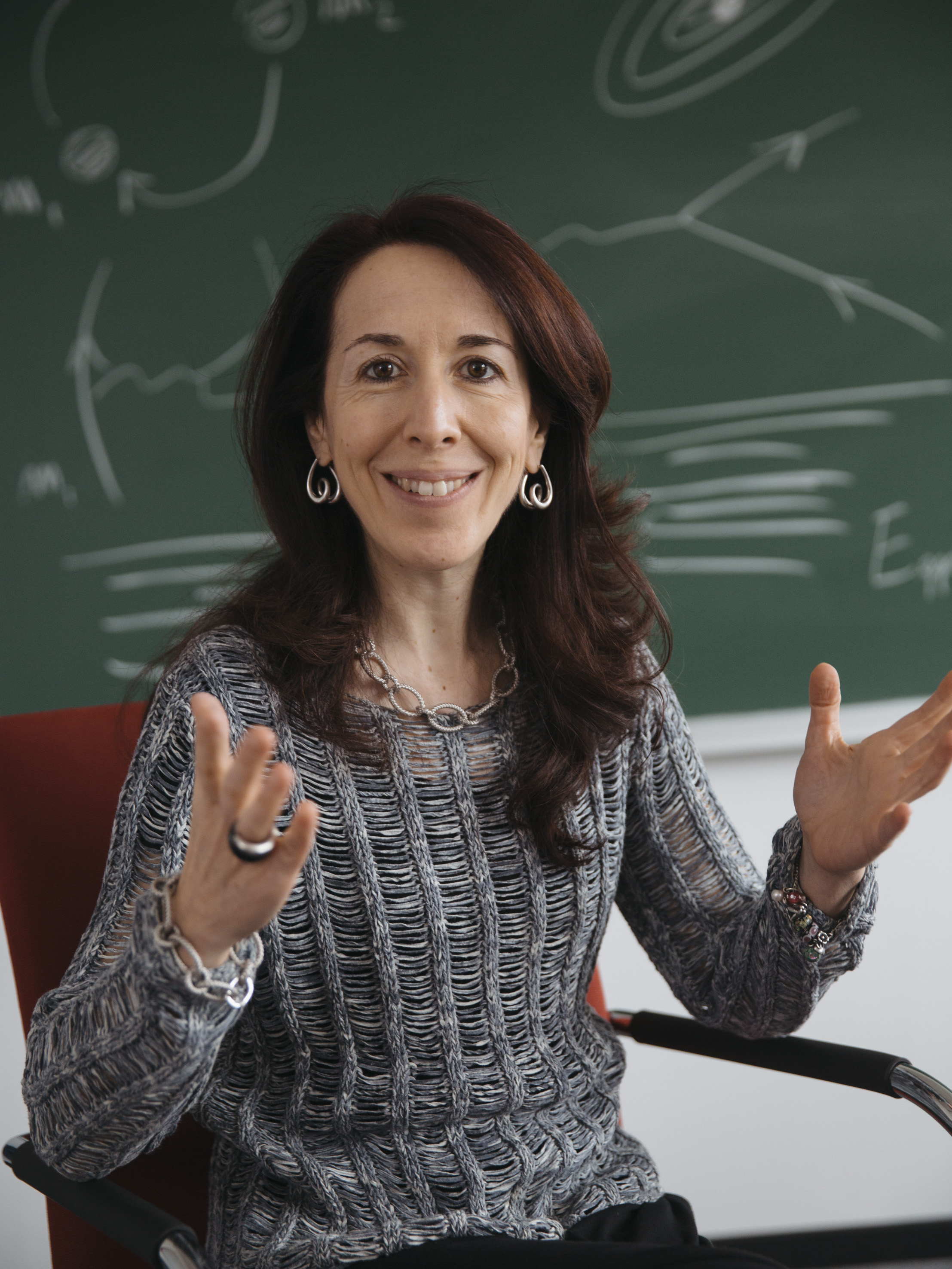 Portrait of Alessandra Buonanno, director at the Max Planck Institute for Gravitational Physics (Albert Einstein Institute) in Potsdam